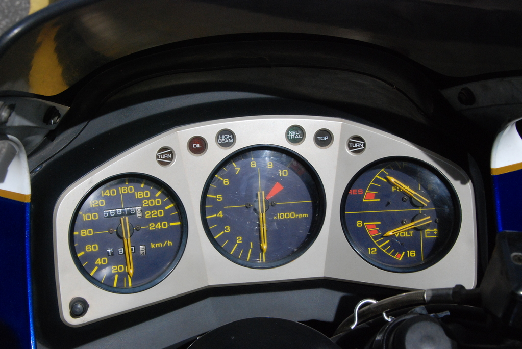 Dashboard from CBX 750F '88 (codename Rothmans)